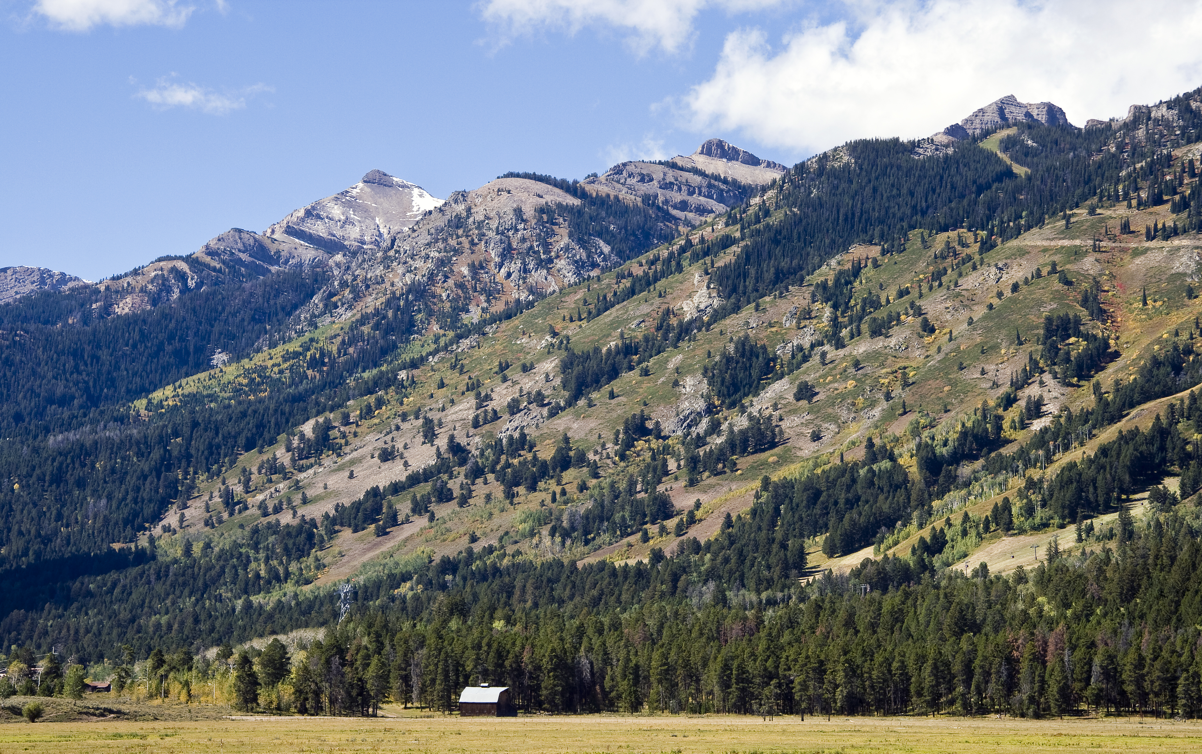 Rendezvous Mountain and Rendezvous Peak, near Jackson, Wyoming, USA